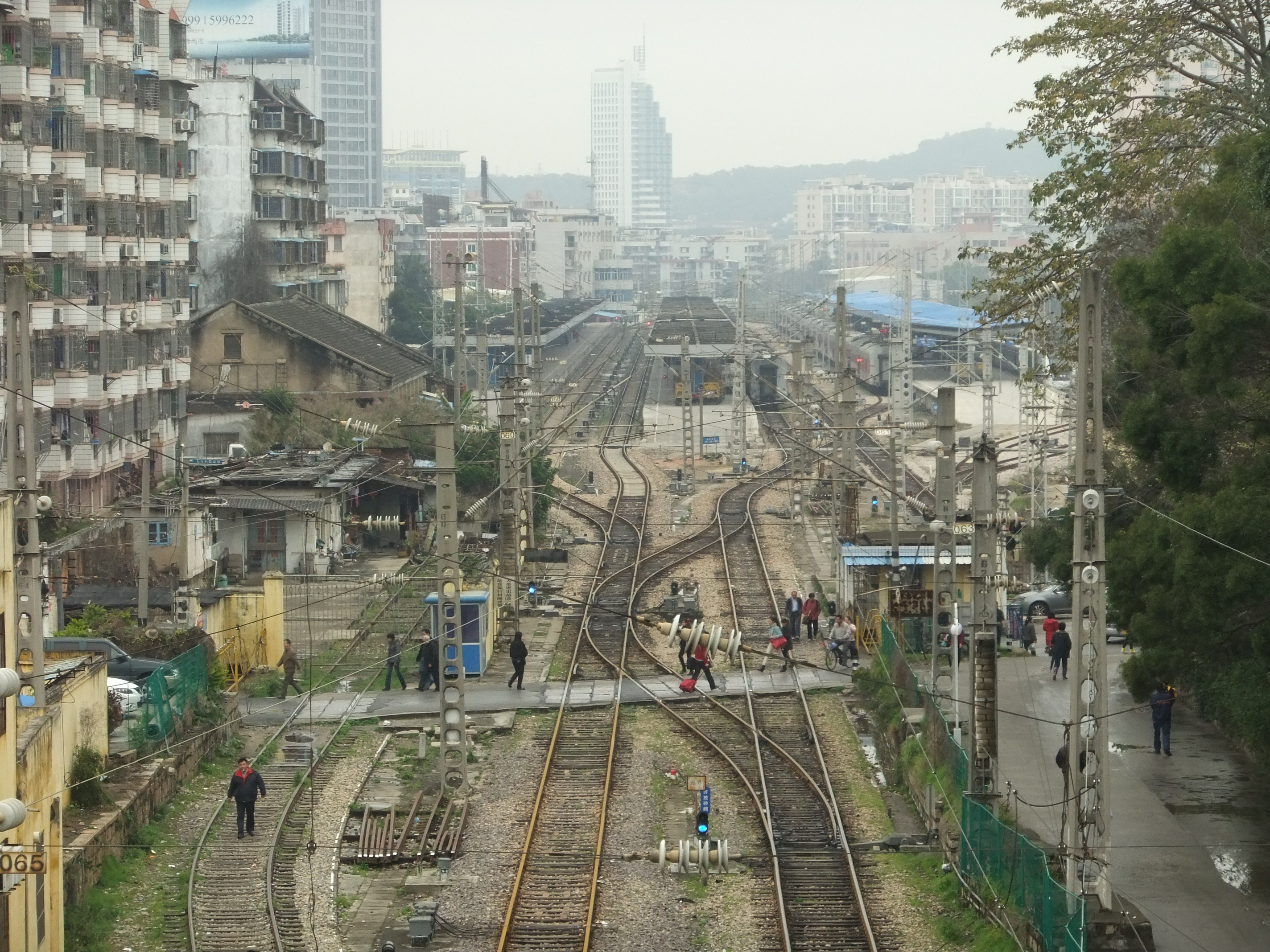 Xiamen Railway Station, seen from a hill to the southwest